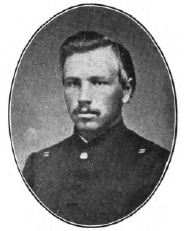 This is a crop of photo of Captain Henry J. Blough, of the 18th Pennsylvania Cavalry in the American Civil War.